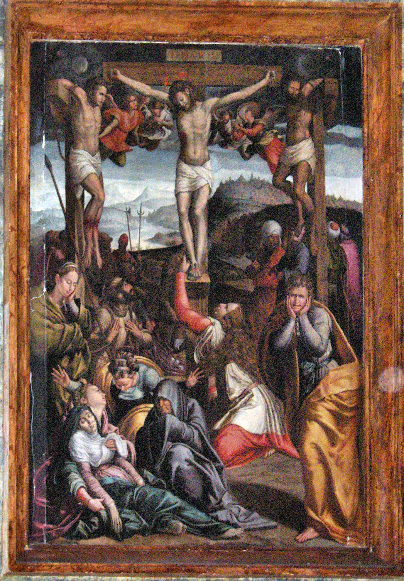 Our Lady of Sorrow (copy); Cathedral of San Rufino, Assisi, Italy